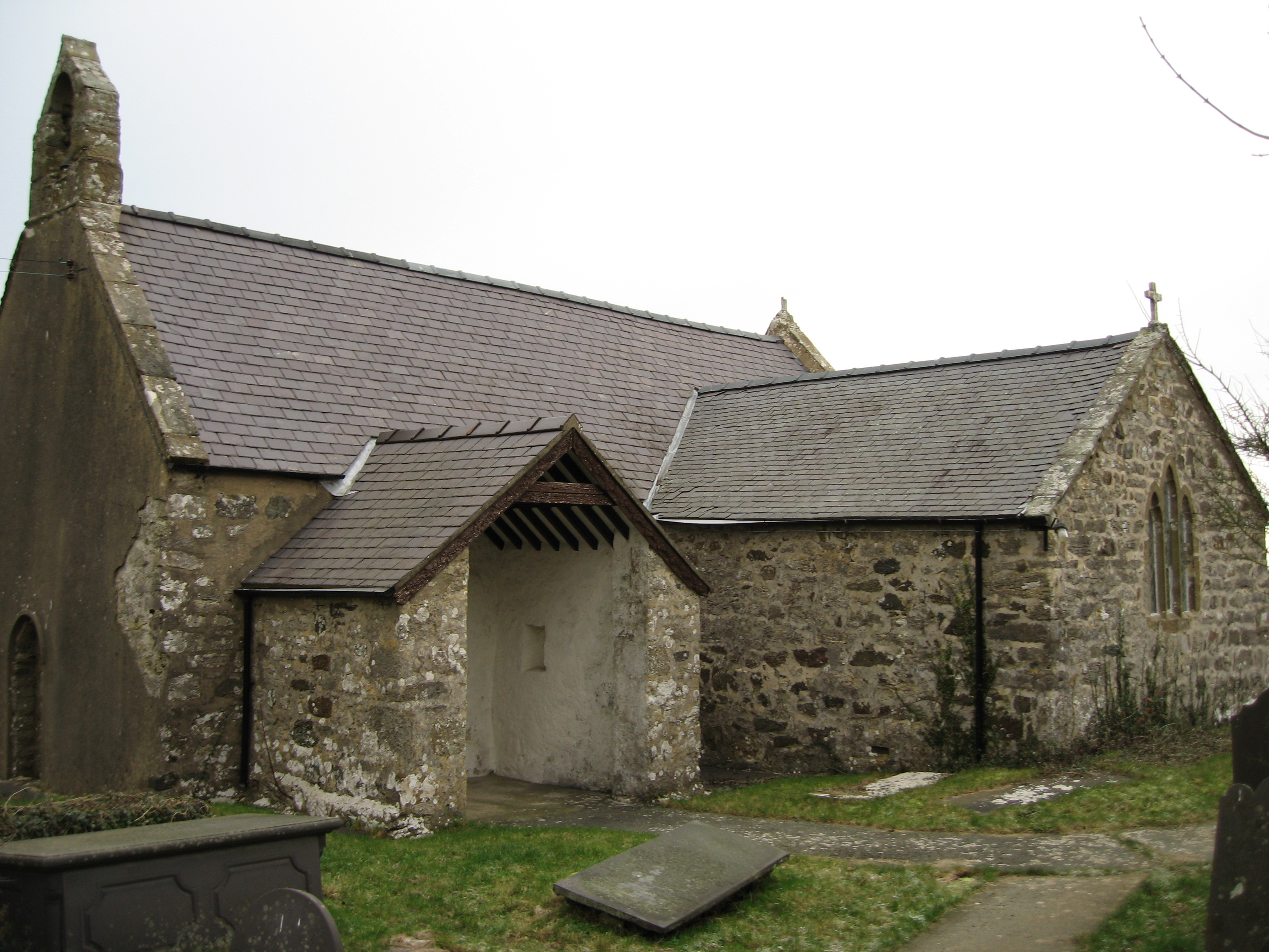 The entrance to St Iestyn's Church, Llaniestyn, Anglesey